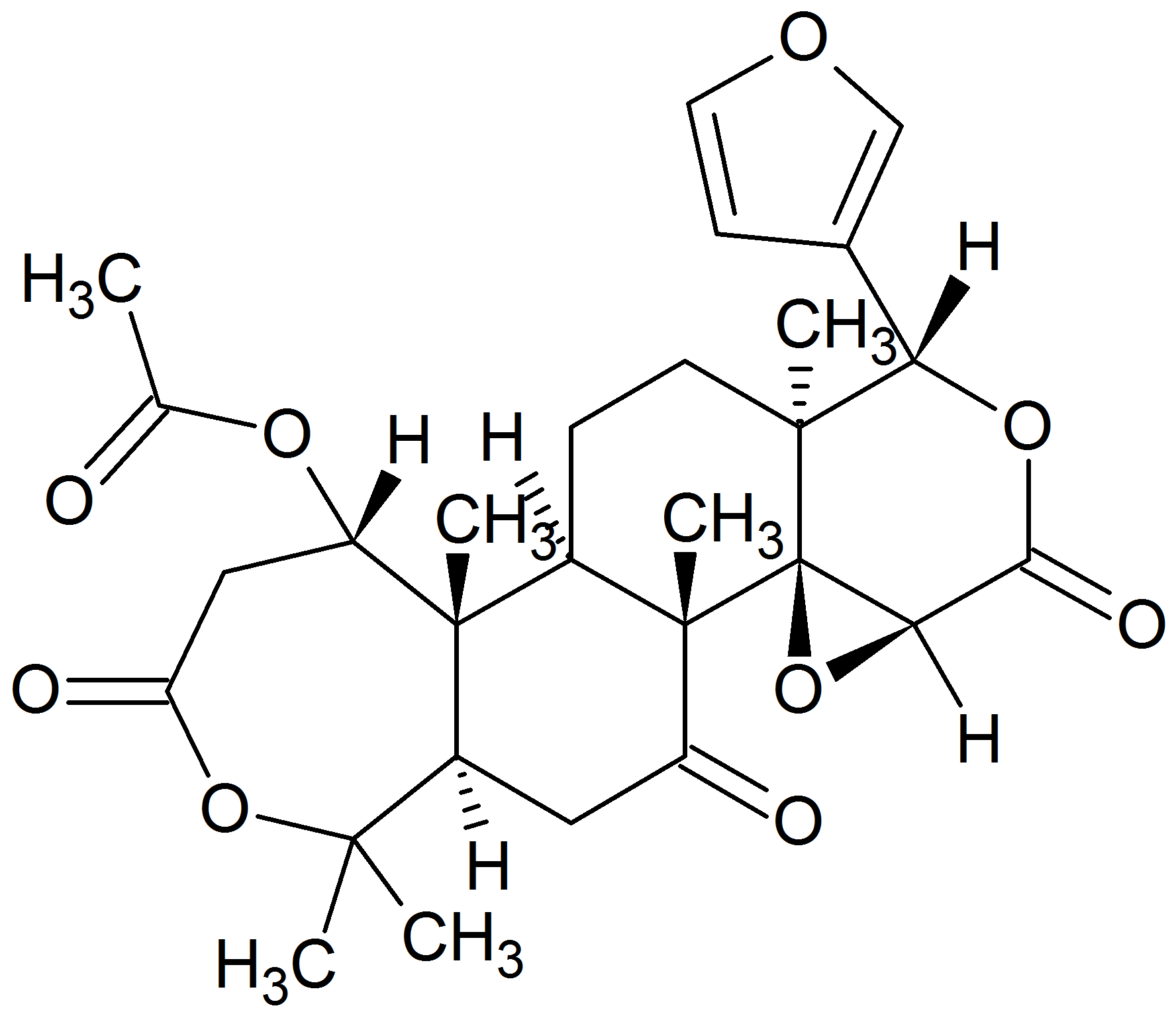 Nomilin - CAS 1063-77-0 - PubChem CID 72320